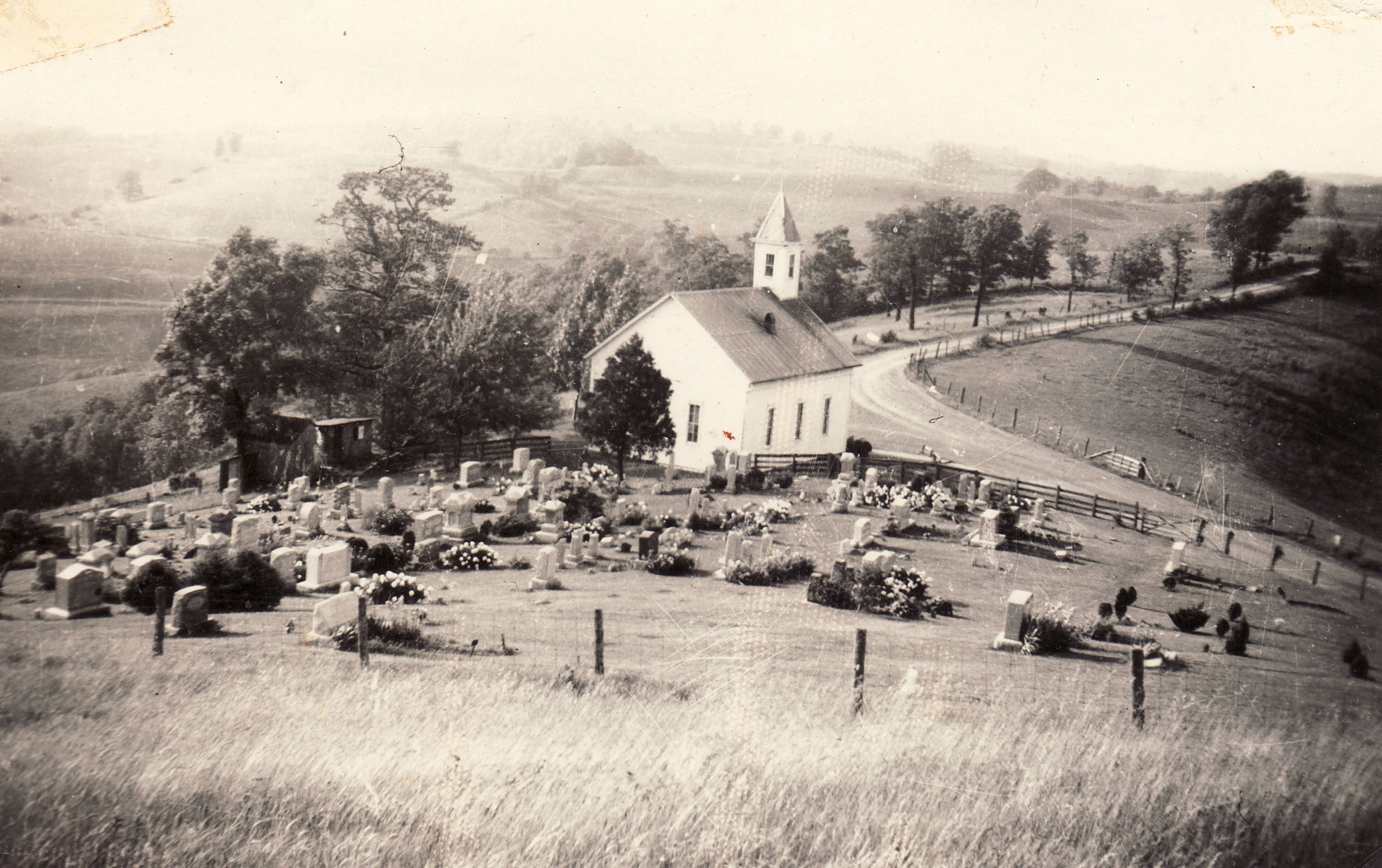 The Centennial Cemetery in Aleppo Township, Greene County, Pennsylvania from the Rex and Irene Marie (Morgan) McVay Collection at the Greene Connections